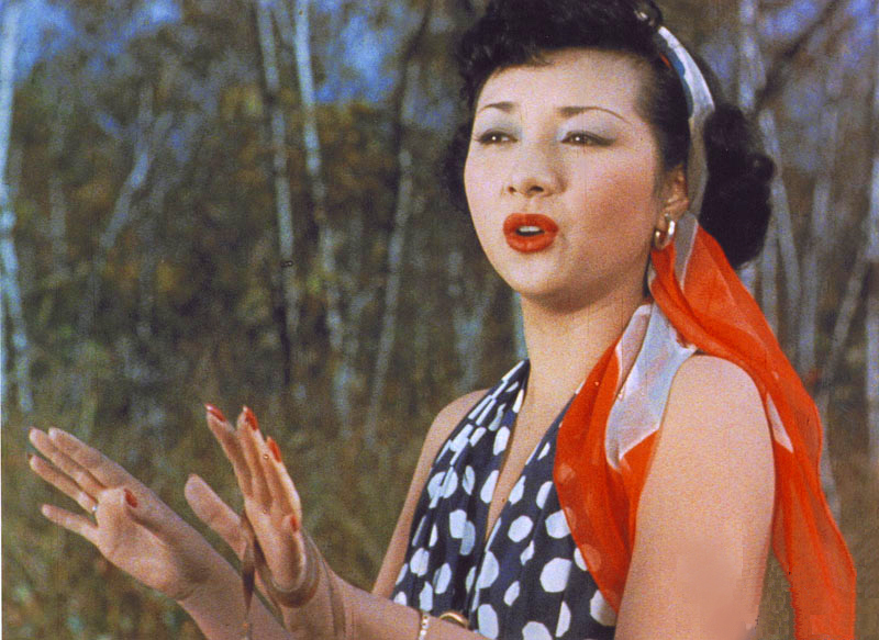 A still image of a scene from the motion picture Karumen Kokyo-ni Kaeru (1951, aka Carmen Comes Home ) featuring Hideko Takamine (1924– ).